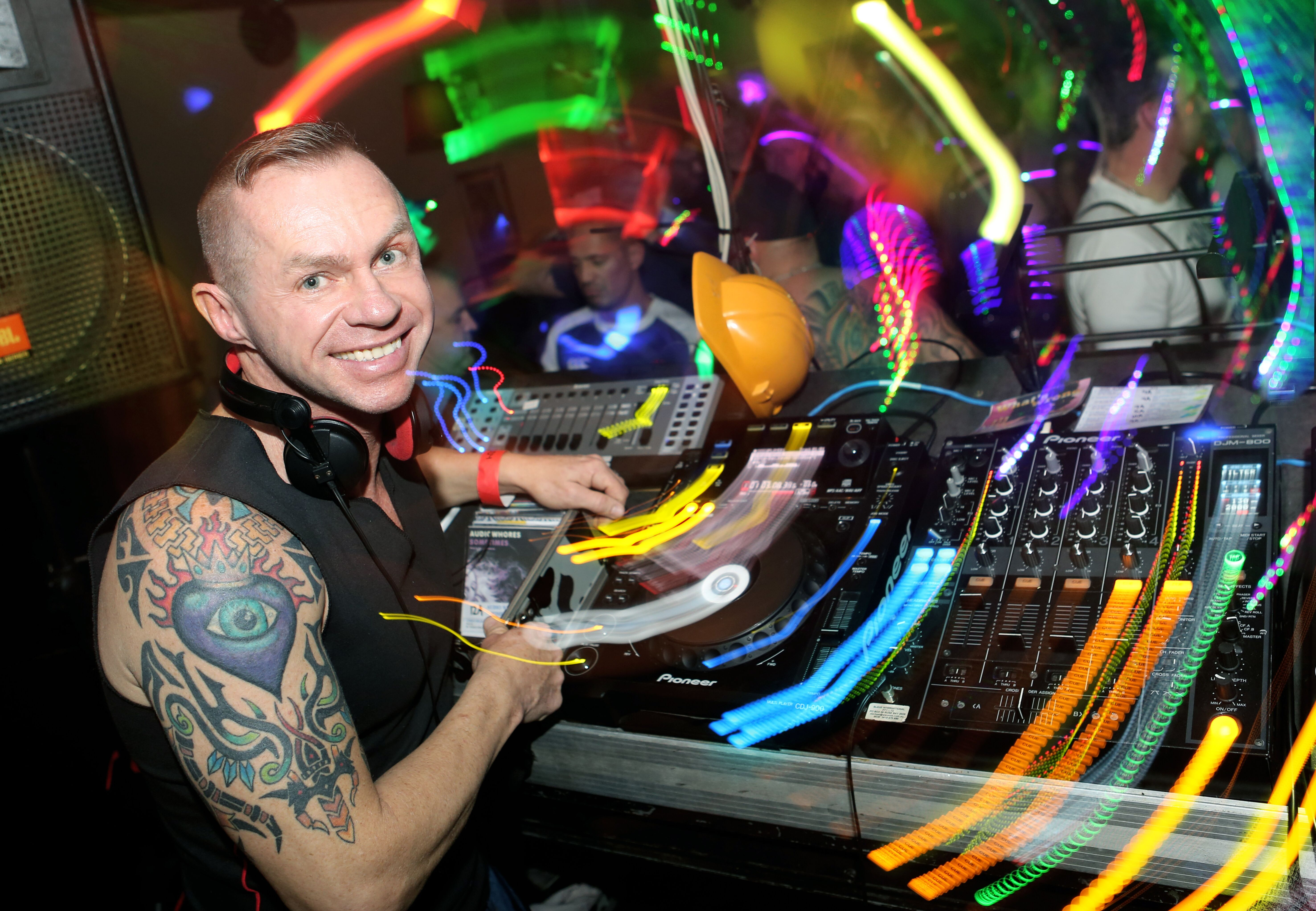 Photo of Mark Alsop by Ann-Marie Calilhanna. 2012.